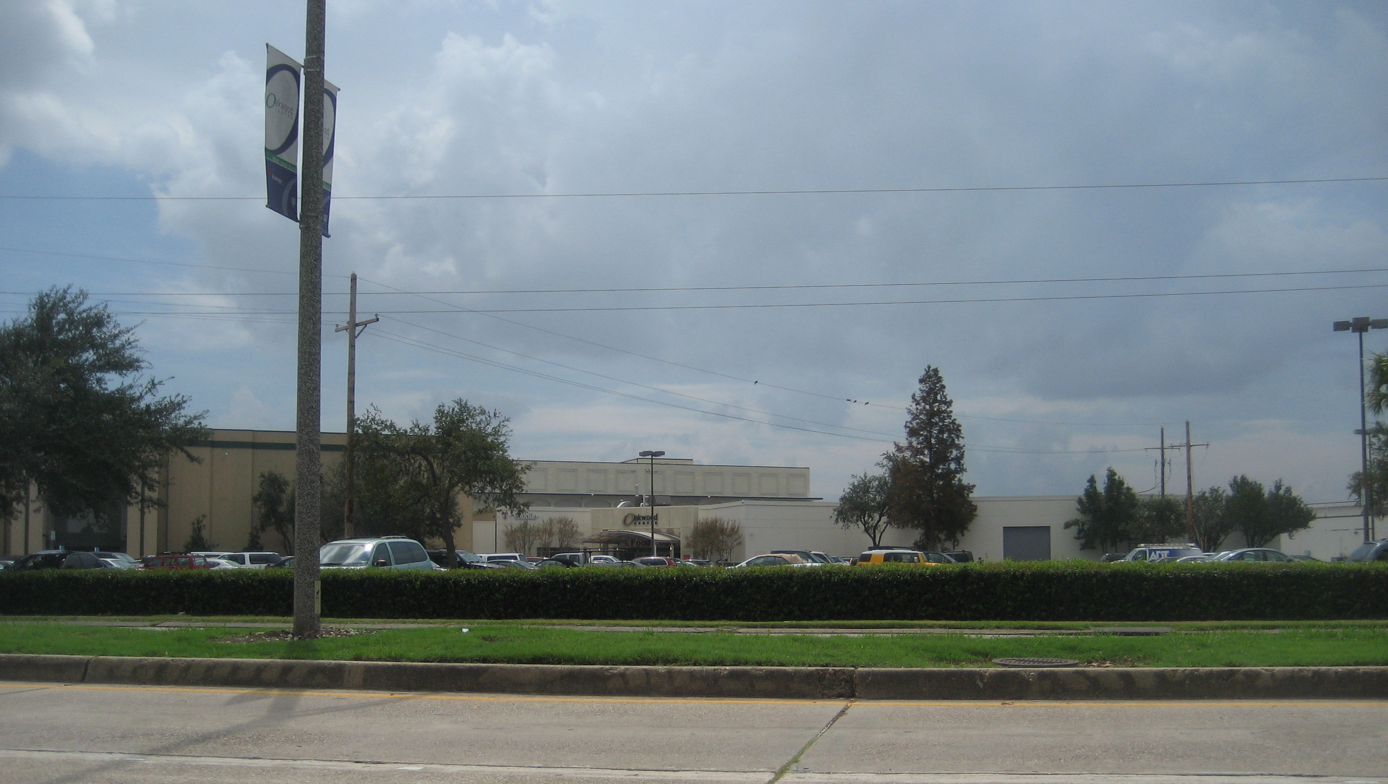 Terrytown, Louisiana. View of Oakwood Mall from Terry Parkway.